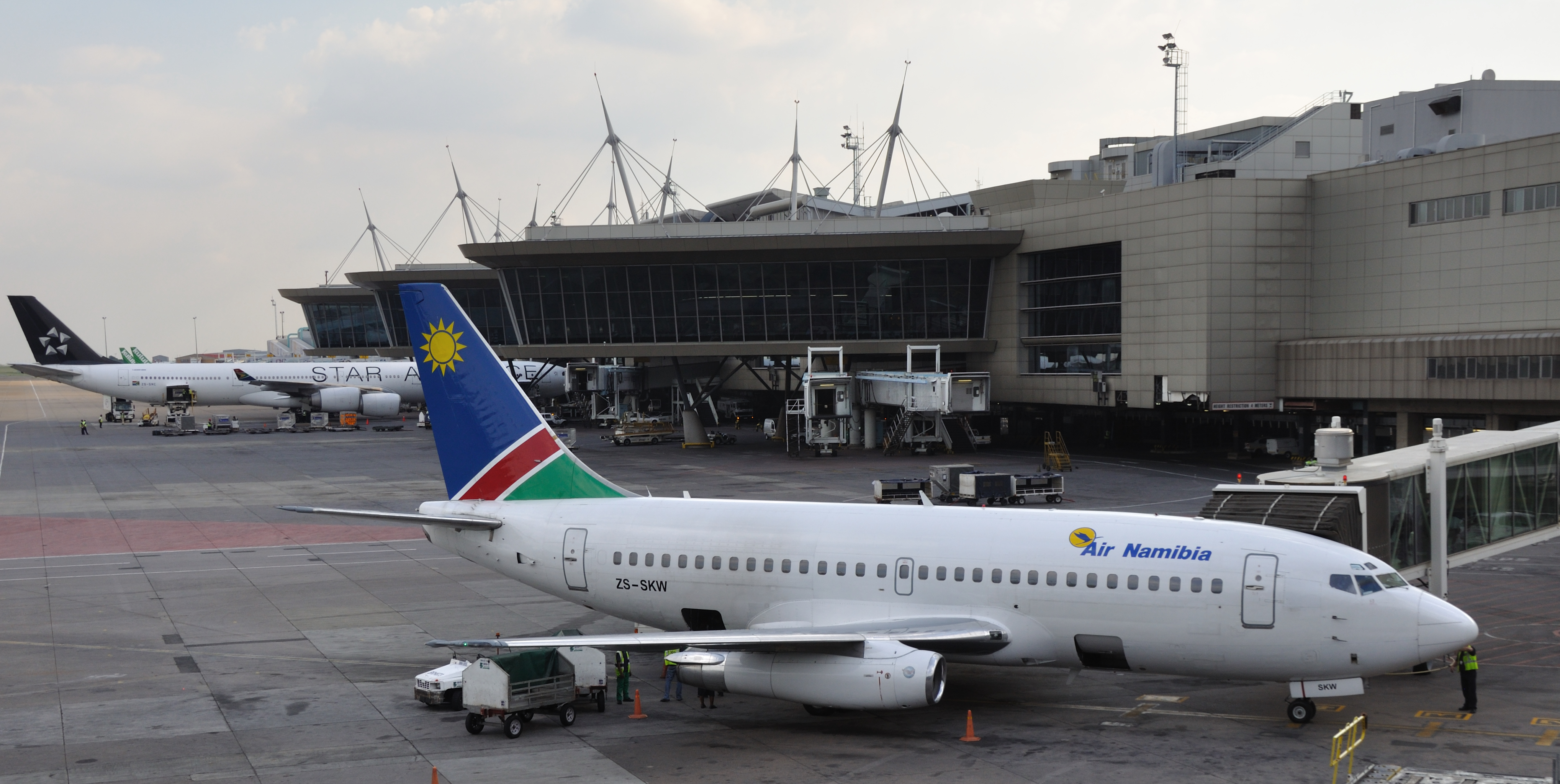 South Africa, spotting at OR Tambo Intl. Airport in Johannesburg